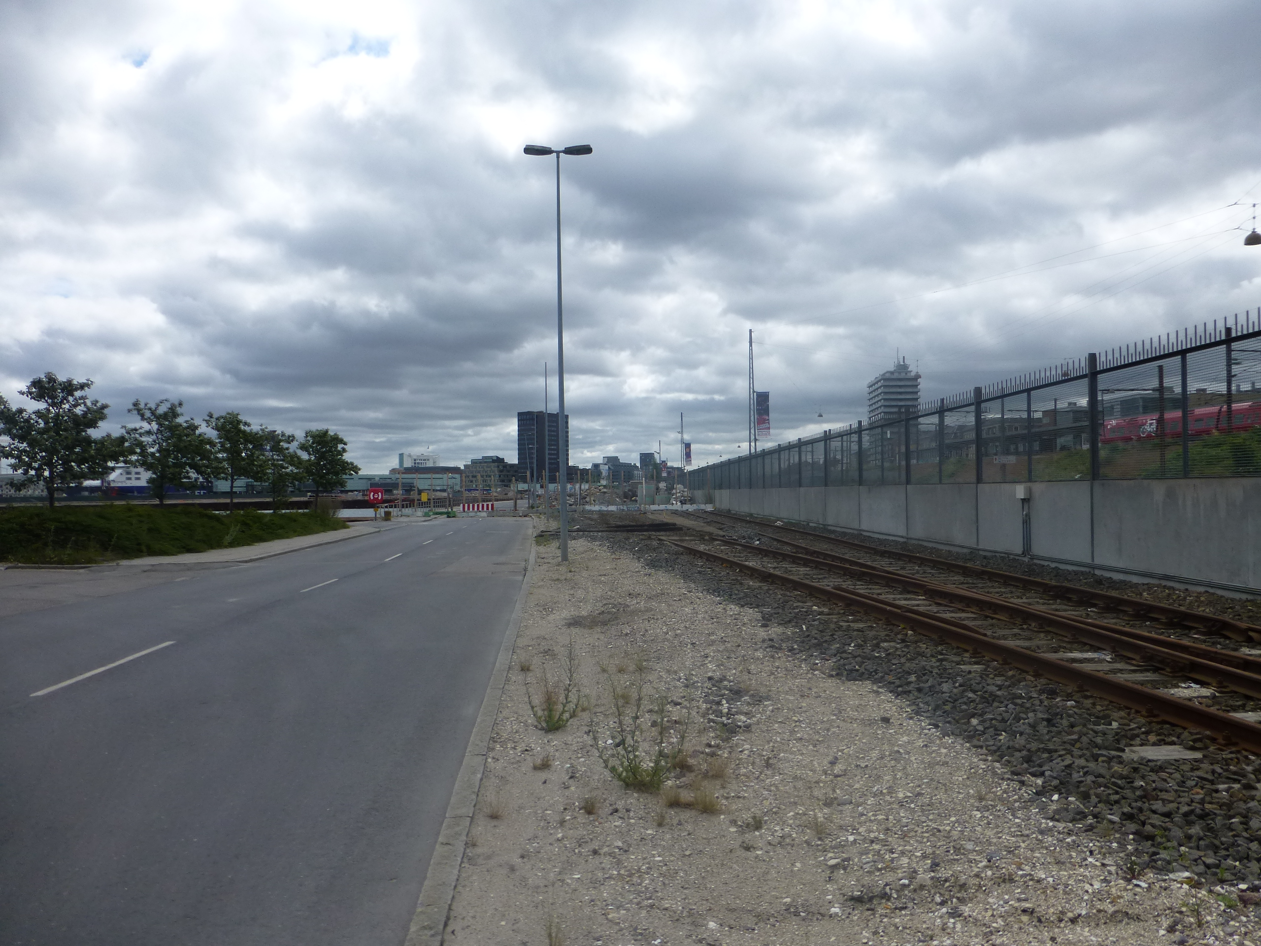 The street Gittervej in Østerbro in Copenhagen. In 2014 the name of this part of the street was changed into Tromsøgade.